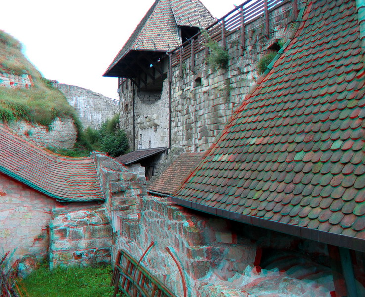 3D - Eger - Hungary - Europe